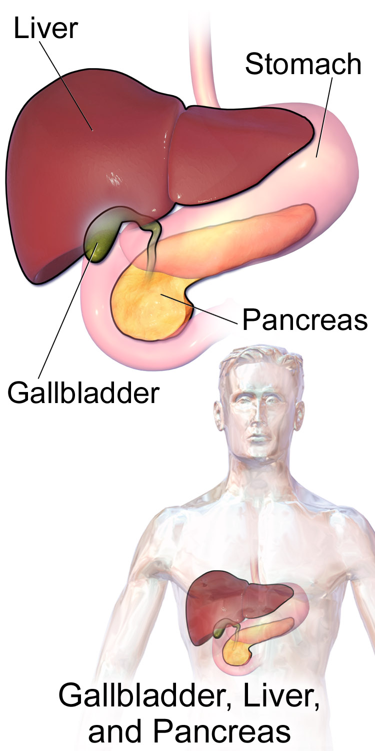 Gallbladder, Liver, and Pancreas. See a related animation of this medical topic.